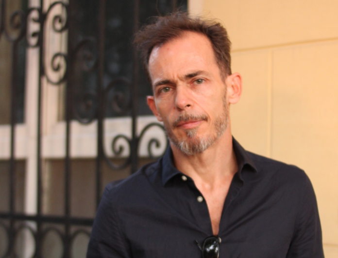 Portrait